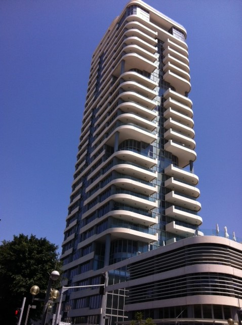 Frishman 46 from Dizengoff